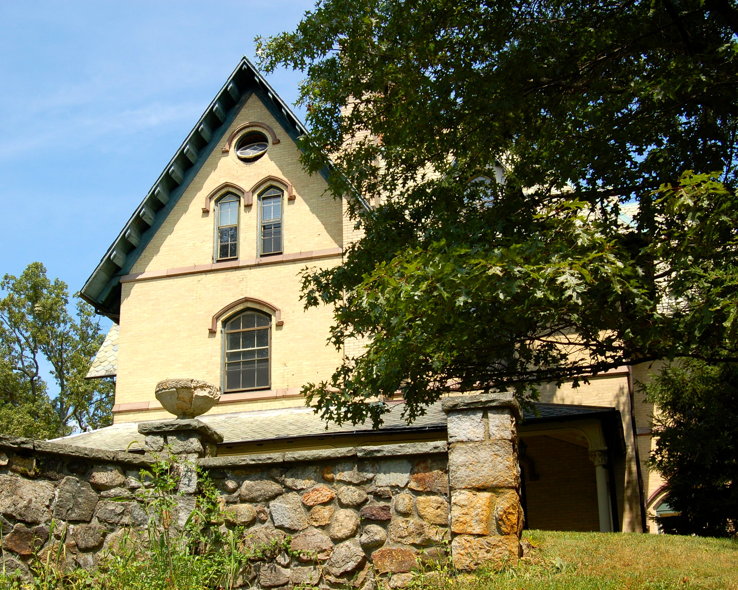 Woodlawn, Garrison, NY, USA. 1854 estate by Richard Upjohn; now home of The Hastings Center.